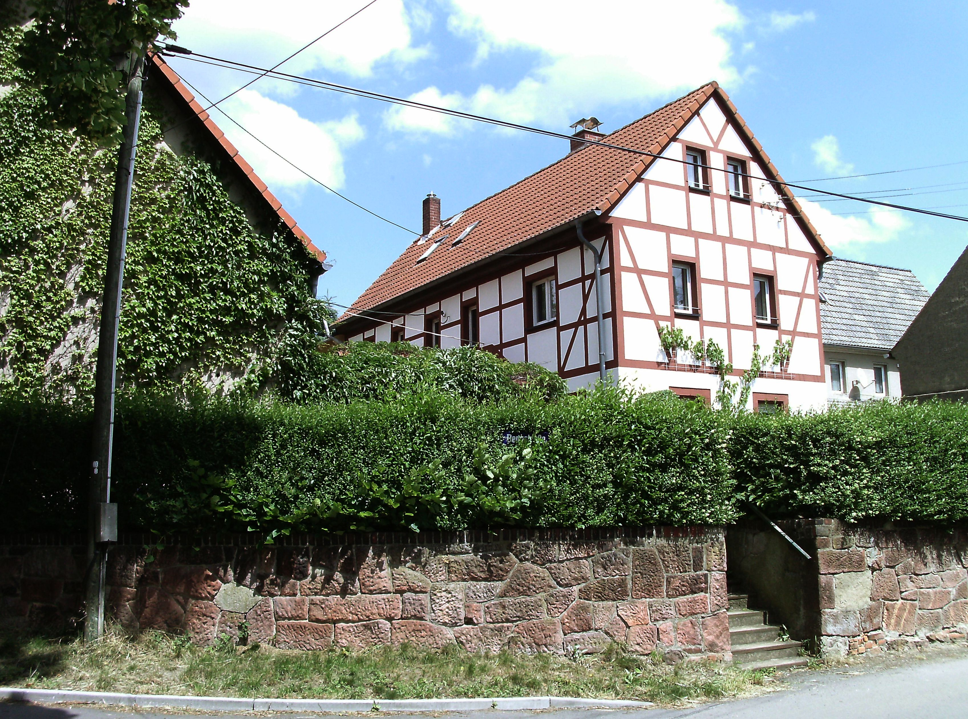 Half-timbered house at Bergstrasse in Niederfrankenhain (Frohburg, Leipzig district, Saxony)